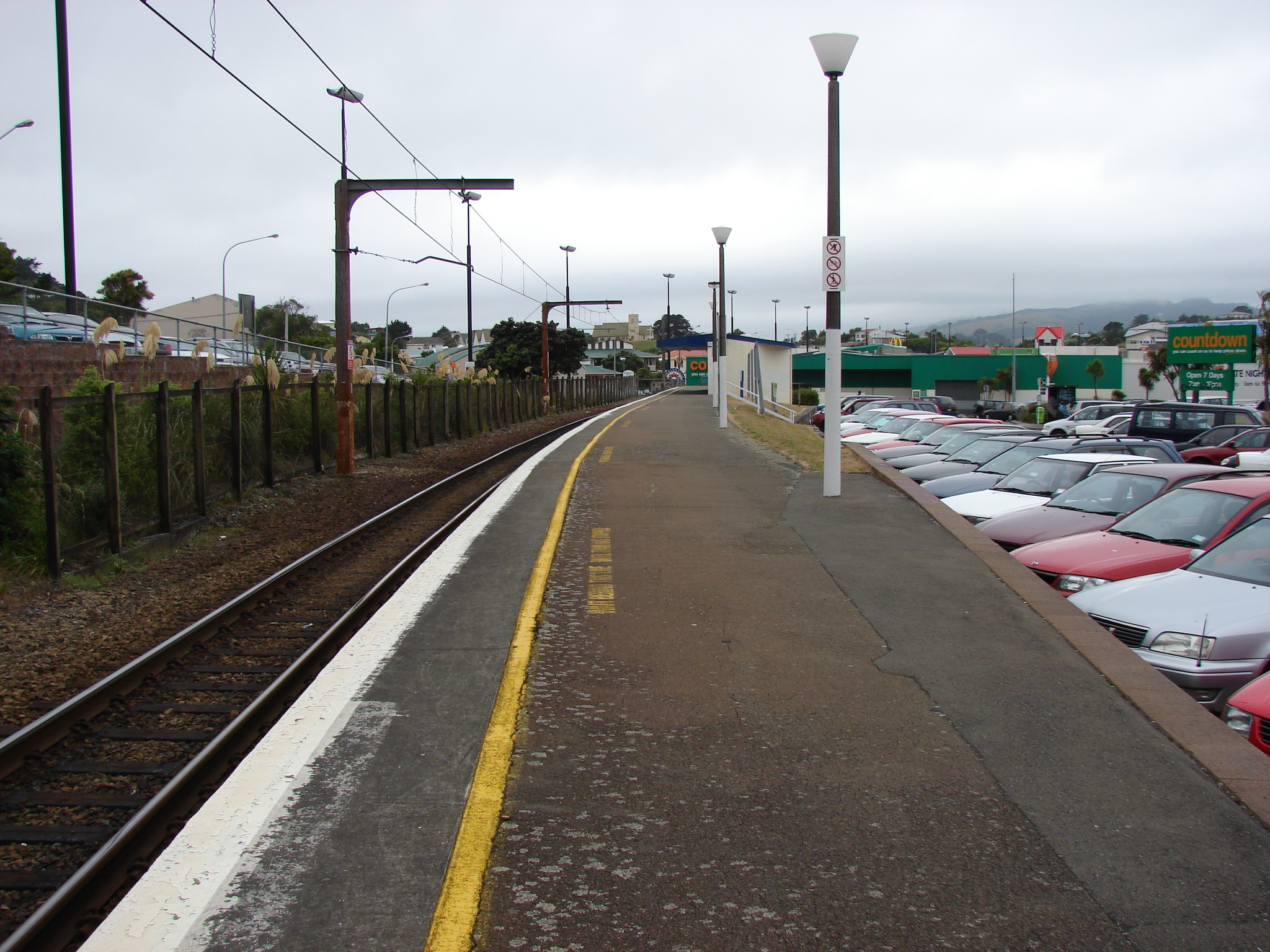 Johnsonville railway station, looking north. Note the Countdown supermarket where the platform and station building used to be sited. Photographed by Matthew25187 on 2007-12-17.